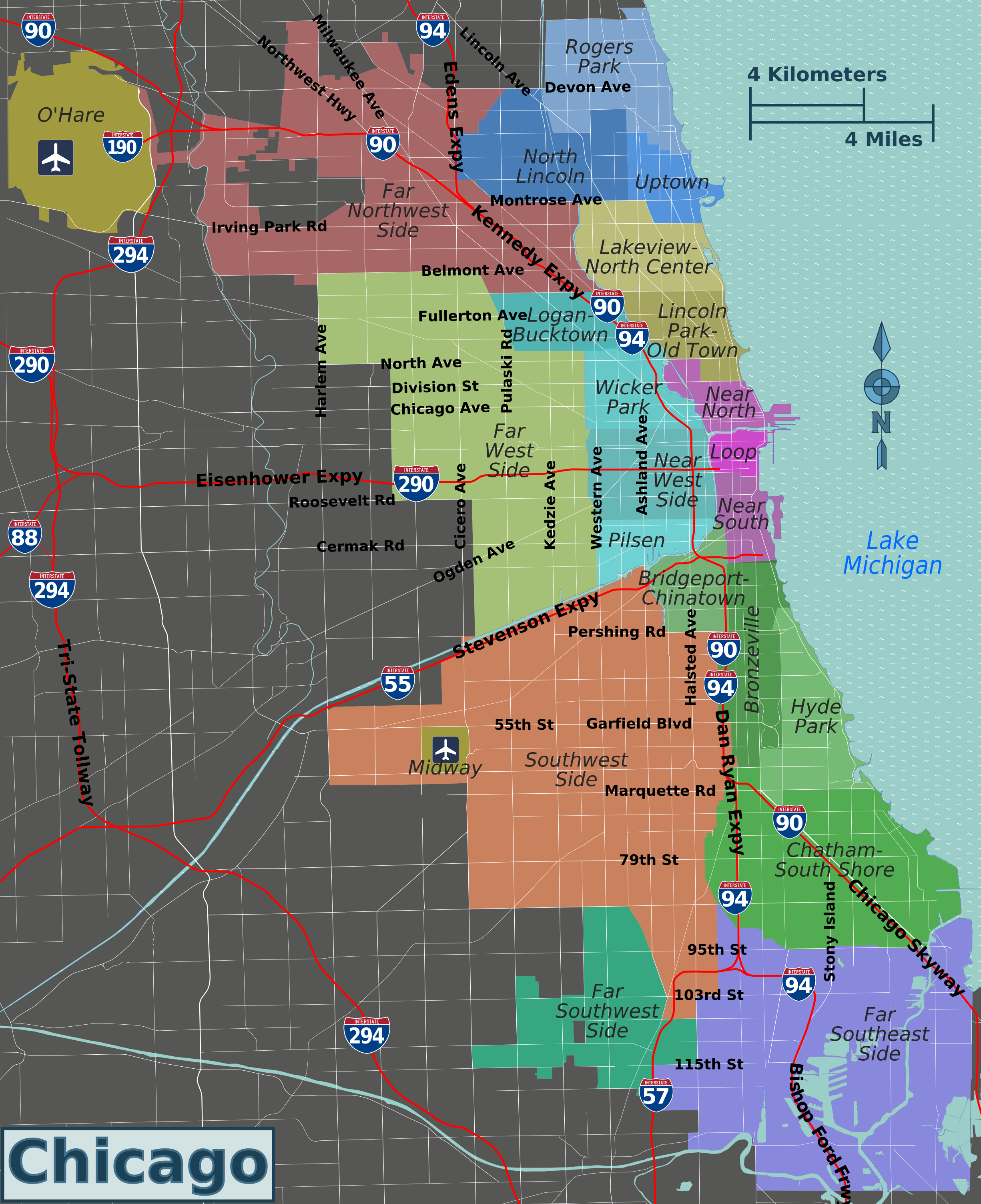 Chicago districts map